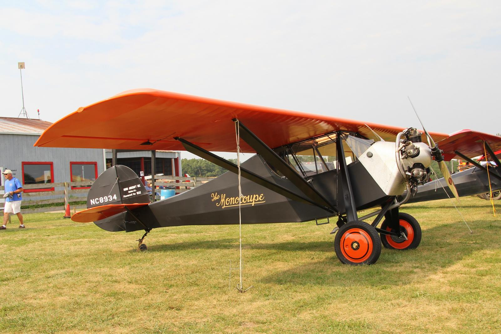 1929 Monocoupe 113 C/N 304